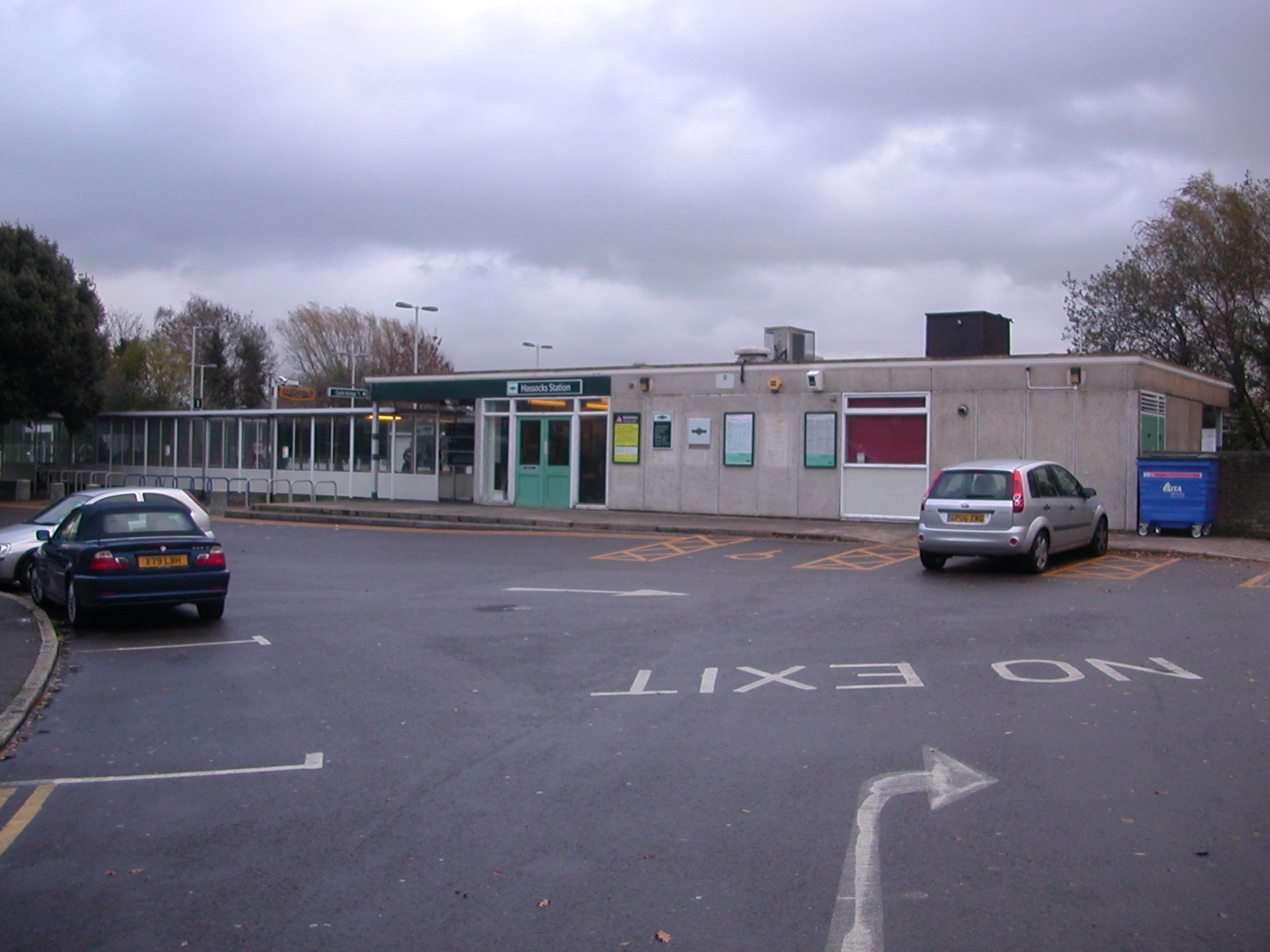 Main building at Hassocks railway station, photographed on 25th November 2006.